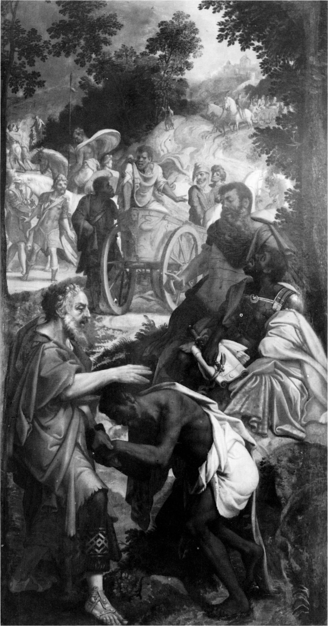 Originally left wing of a triptych. Central panel depicting the The Miraculous Draught of Fishes in the Onze-Lieve-Vrouwekathedraal, Antwerp (see File:Jan van der Elburcht 001.jpg).